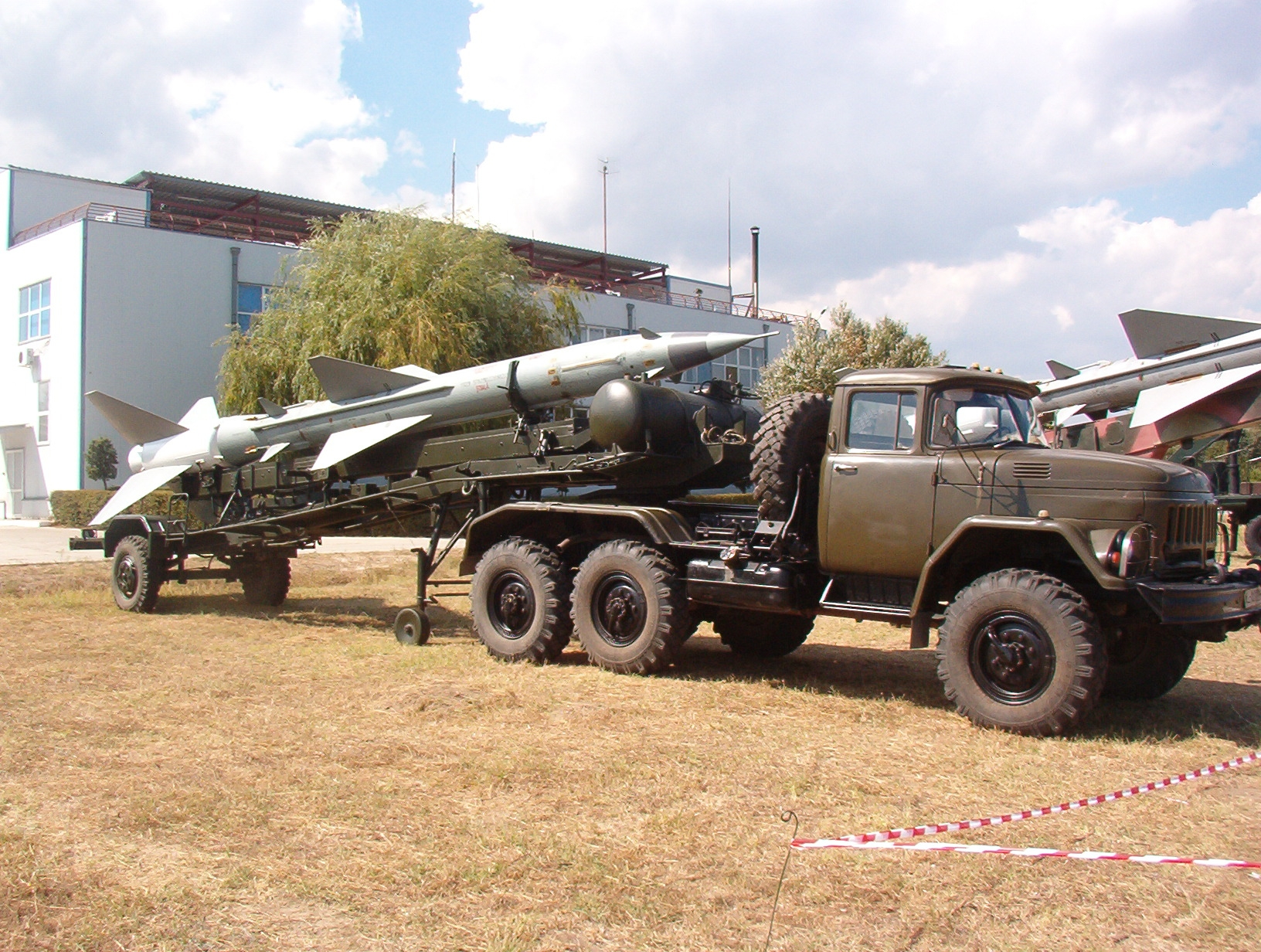 S-75 Dvina missile (NATO designation: SA-2 Volhov) on display during the 90th anniversary of the Romanian Antiaircraft Artillery and Missiles.